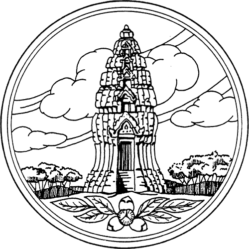 Provincial seal of Sisaket province.